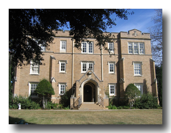 This is Garrett Memorial Hall at the Episcopal Cathedral Church of Saint Matthew in Dallas, Texas. This is the west end of the building. Garrett Hall houses the office administration of the cathedral, class rooms, guest rooms, libraries, and parlors. This is my photograph that I took and you are welcome to it. Sarum blue 17:23, 16 February 2006 (UTC)